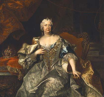 Empress Elisabeth Christine (1691-1750)